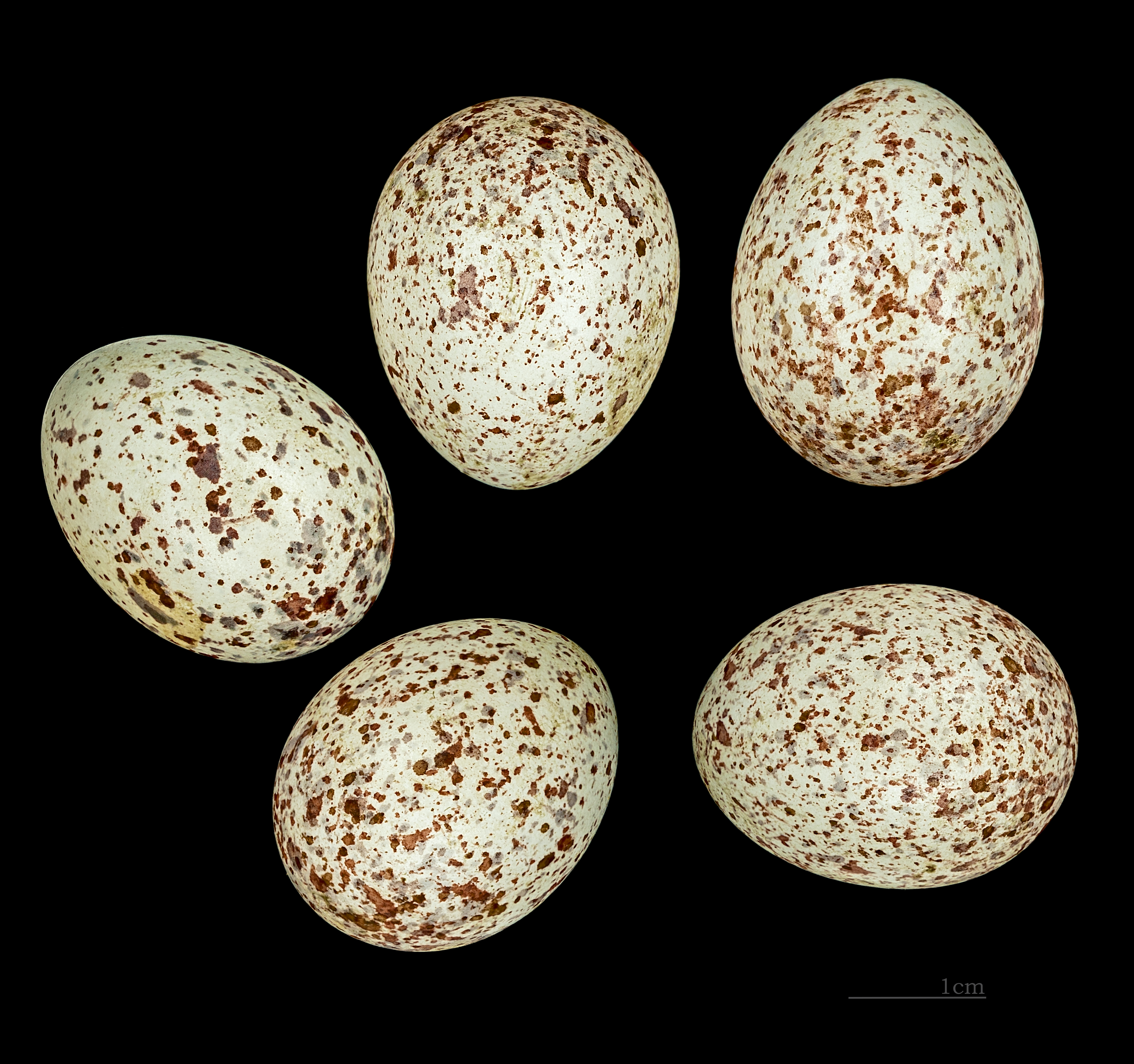 Egg of Eastern Meadowlark . Collection of Henri Heim de Balsac /Jacques Perrin de Brichambaut. Gesammelte 1894.